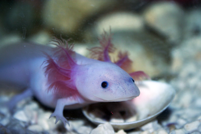 a half year old albino axolotl in tank